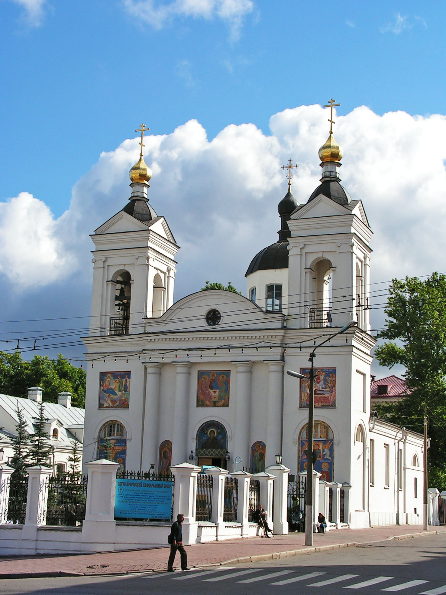 Church of the Protection of the Mother of God (Vitebsk, Belarus)